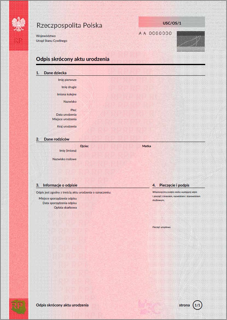 Polish abbreviated birth certificate, new version since 2015